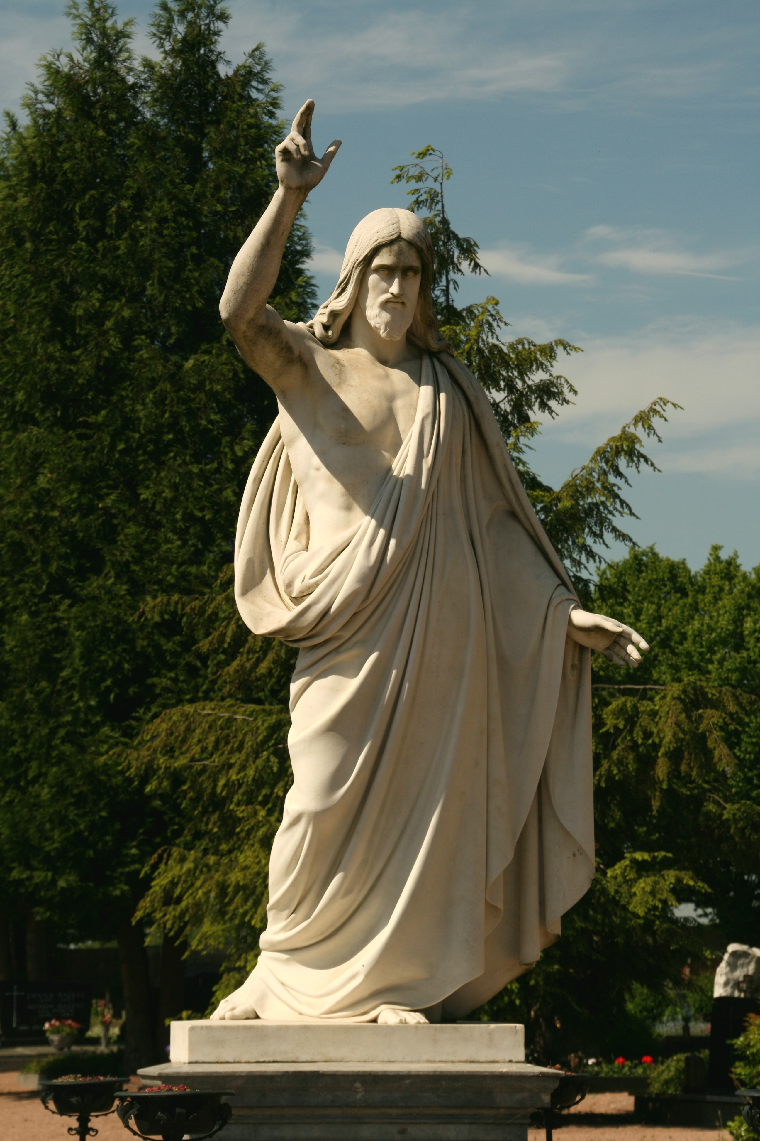 Blessing Jesus Christ by Johann Heinrich Stöver, 1873. St John's Church, Erbach, Rheingau, Hesse, Germany